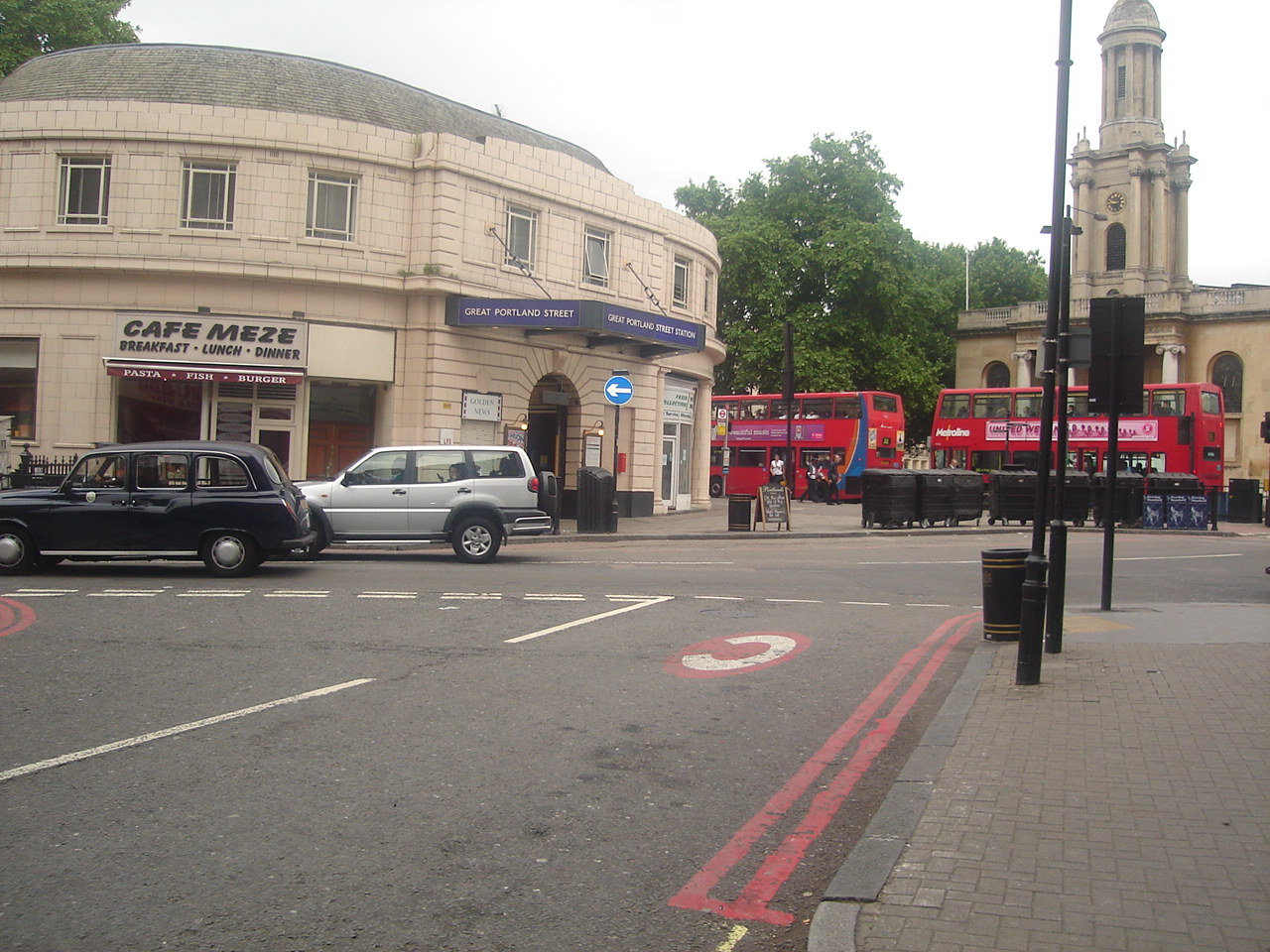 Great Portland Street Underground station